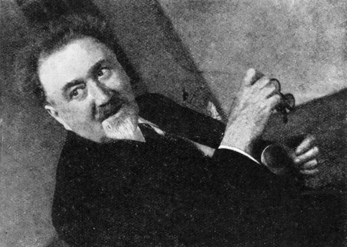 Max Švabinský (1873–1962) was a Czech painter, draughtsman, graphic artist, and professor in Academy of Graphic Arts in Prague.